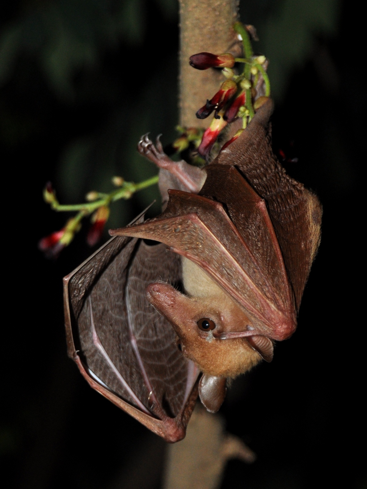 Greater long-tongued fruit bat (Macroglossus sobrinus), female, fore-arm 48 mm, from Darmaga, Bogor, West Java. Roost at Averrhoa bilimbi branch, front view.